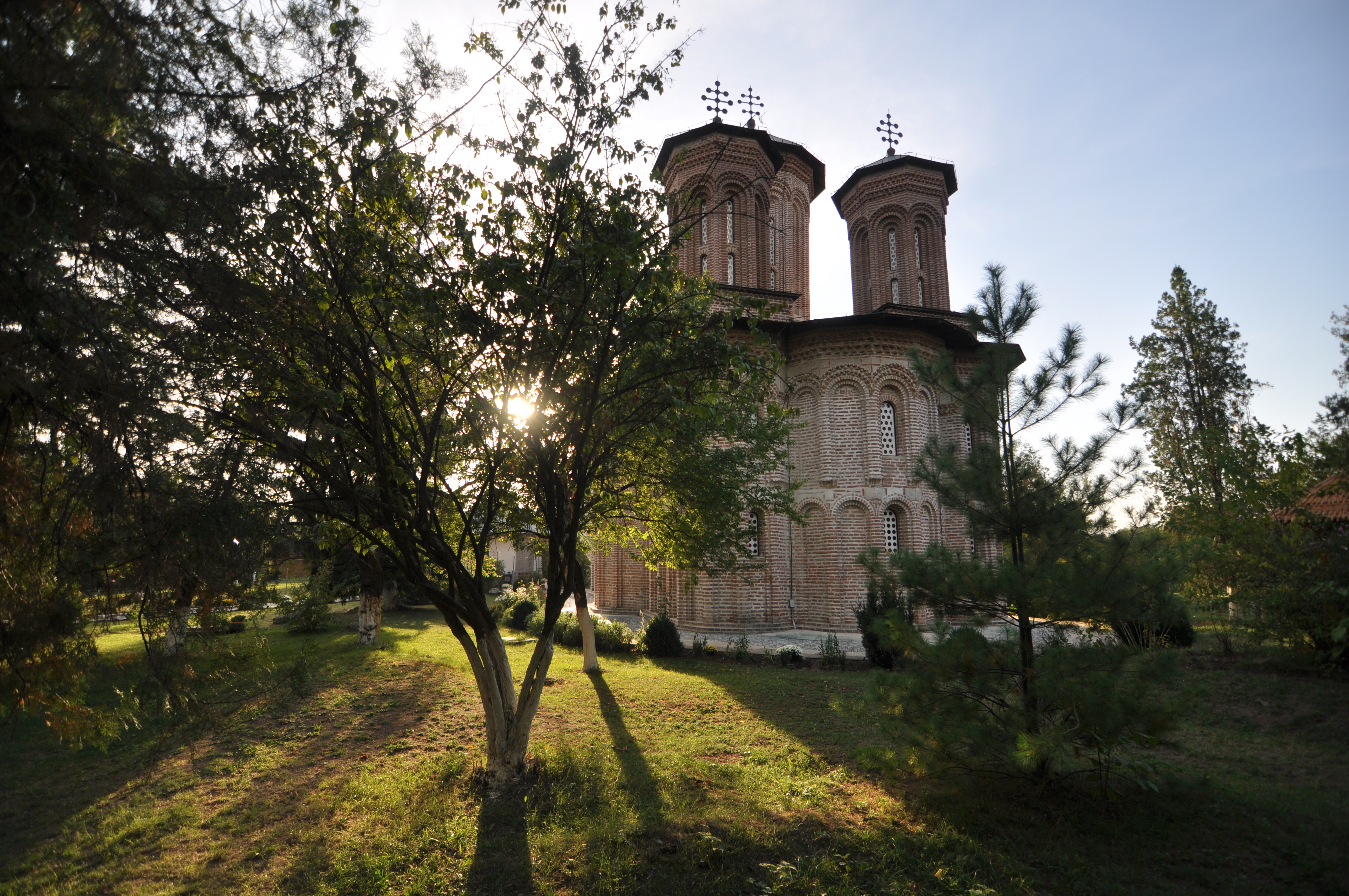 Snagov Monastery Biserica "Intrarea Maicii Domnului în Biserică" "The Presentation" Church [Entrance of the Theotokos into the Temple] construction from 1517, iconography from1563, other interventions 1815, 1904, 1941, 1953, 1966...